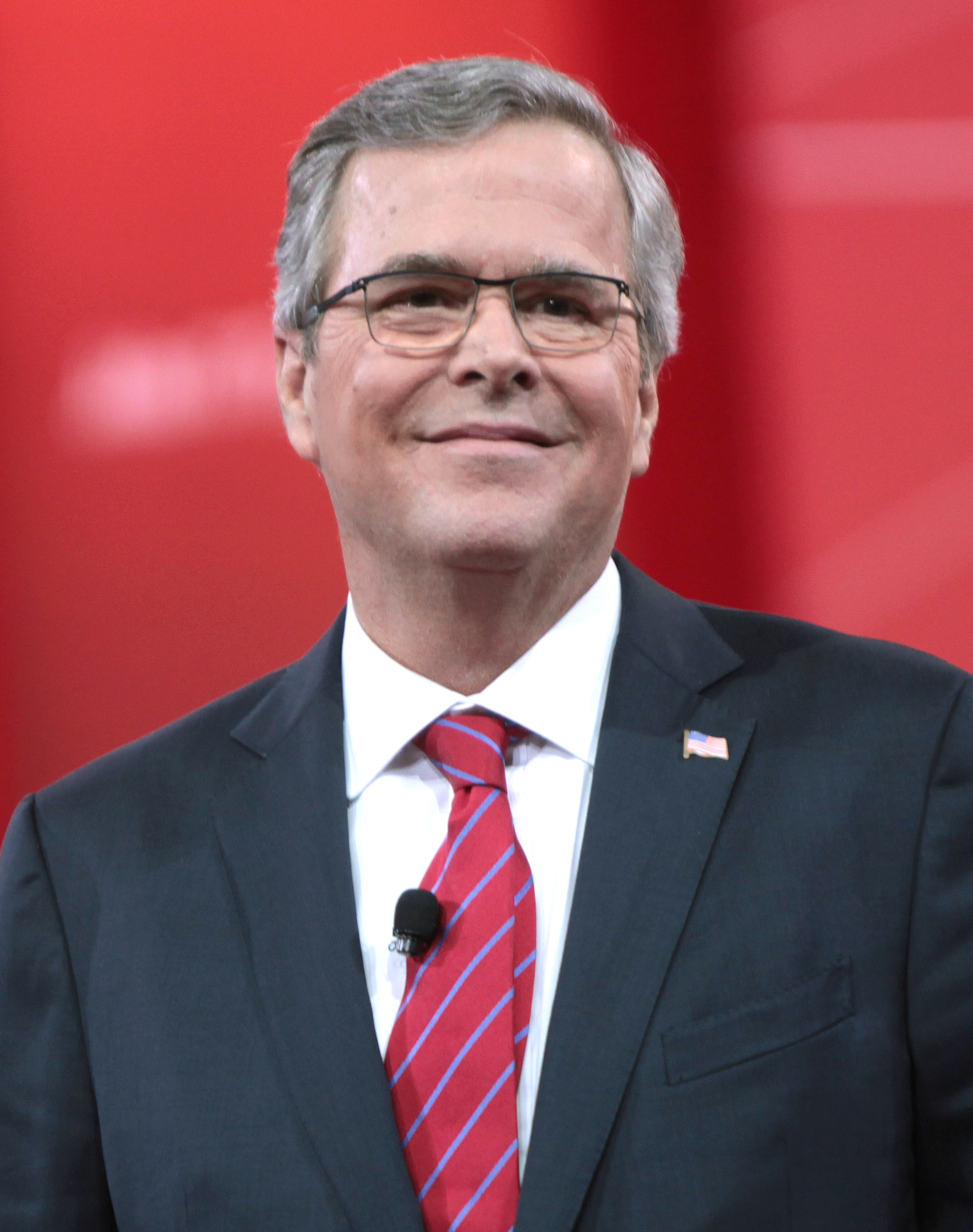 Jeb Bush speaking at CPAC 2015 in Washington, DC.